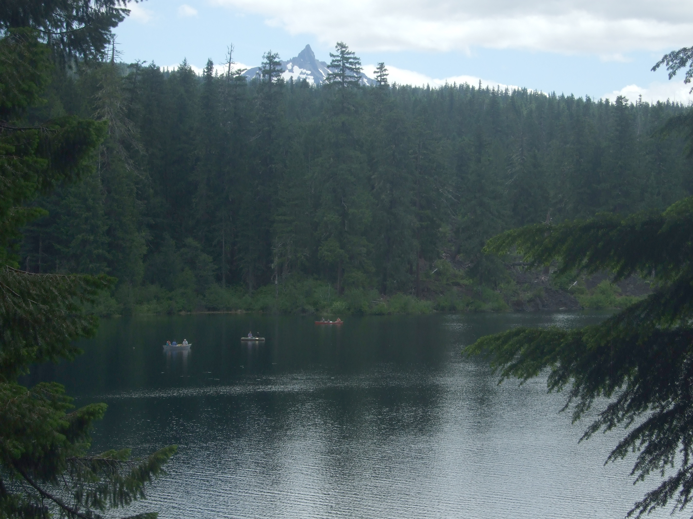 Clear Lake, Linn County, Oregon with Mount Washington in background